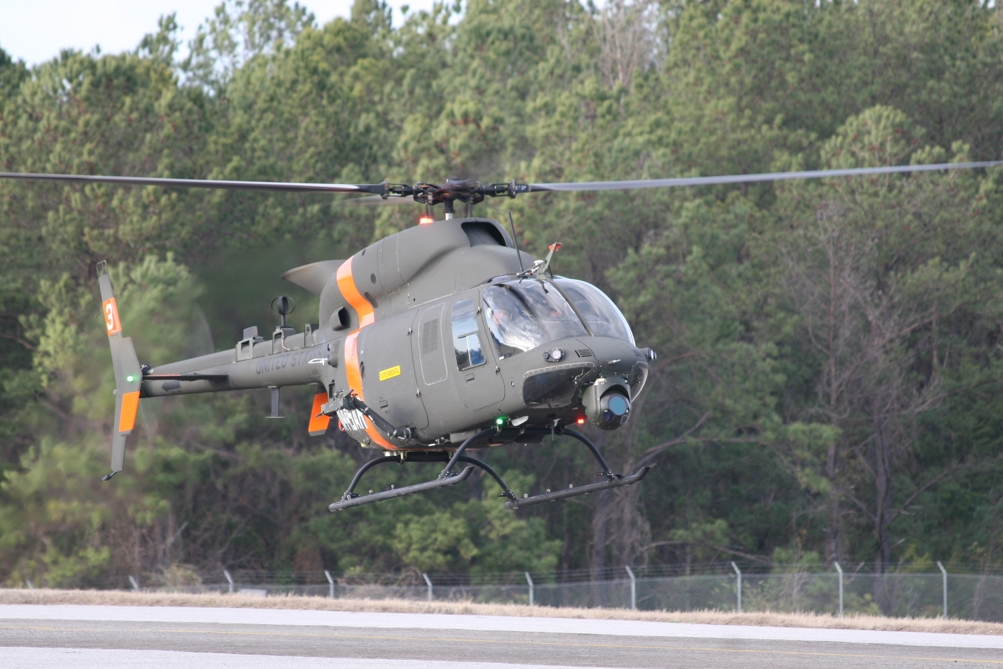 The unarmed training version of the Army's new ARH-70 Armed Reconnaissance Helicopter approaches Cairns Army Airfield at Fort Rucker Jan. 29.